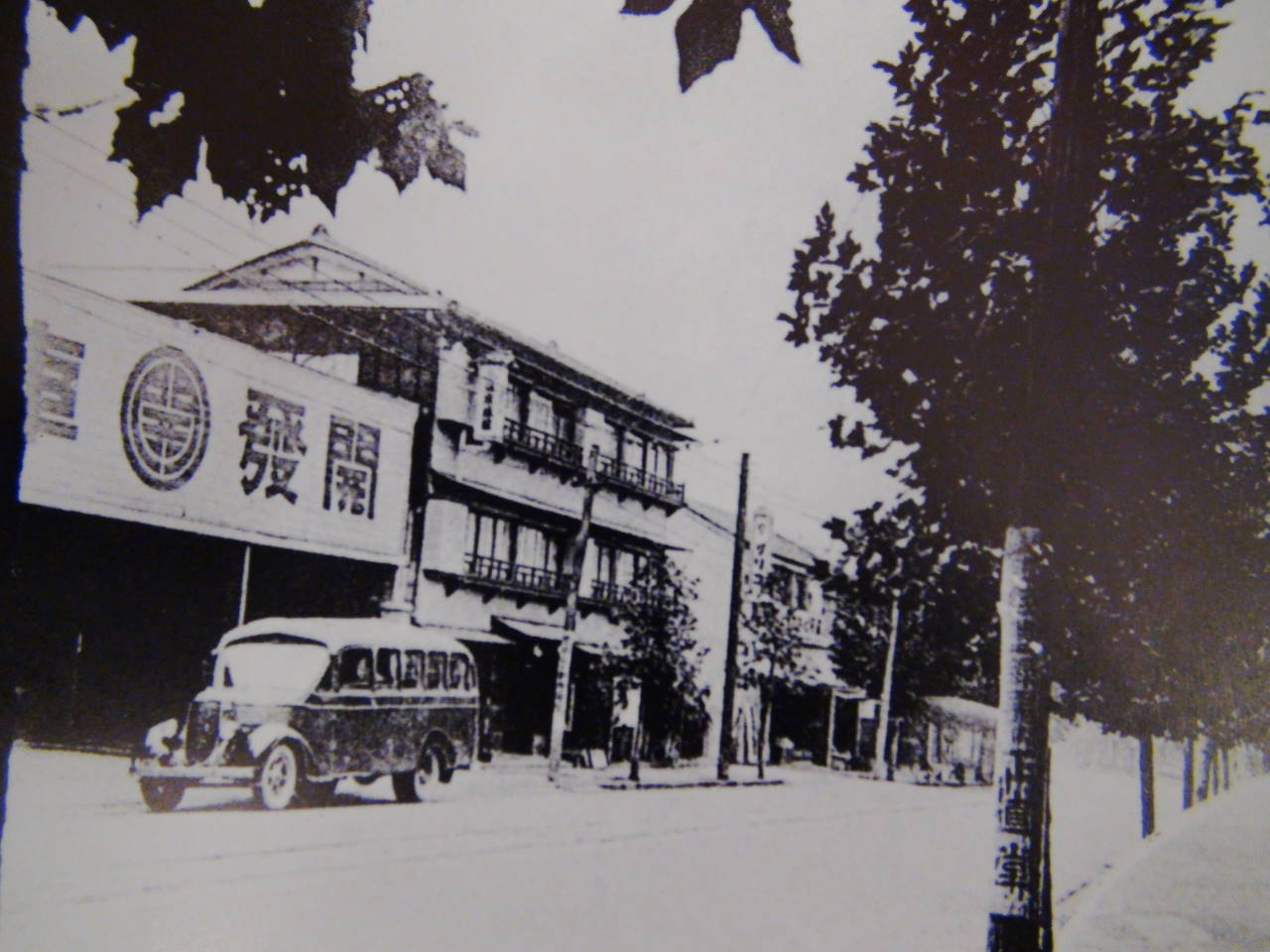 Development Association, Yamanashi circa 1928